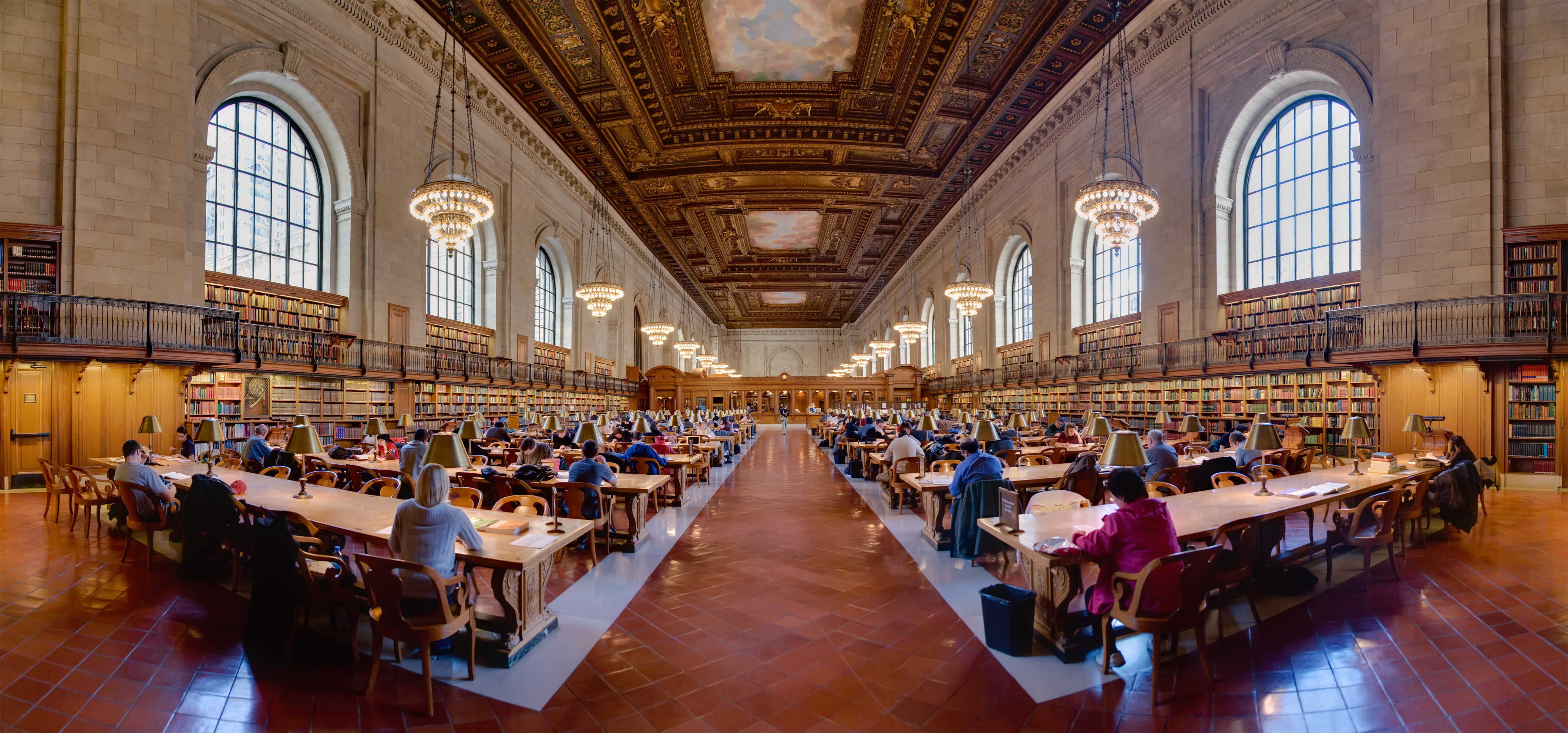 A panorama of a research room taken at the New York Public Library with a Canon 5D and 24-105mm f/4L IS.